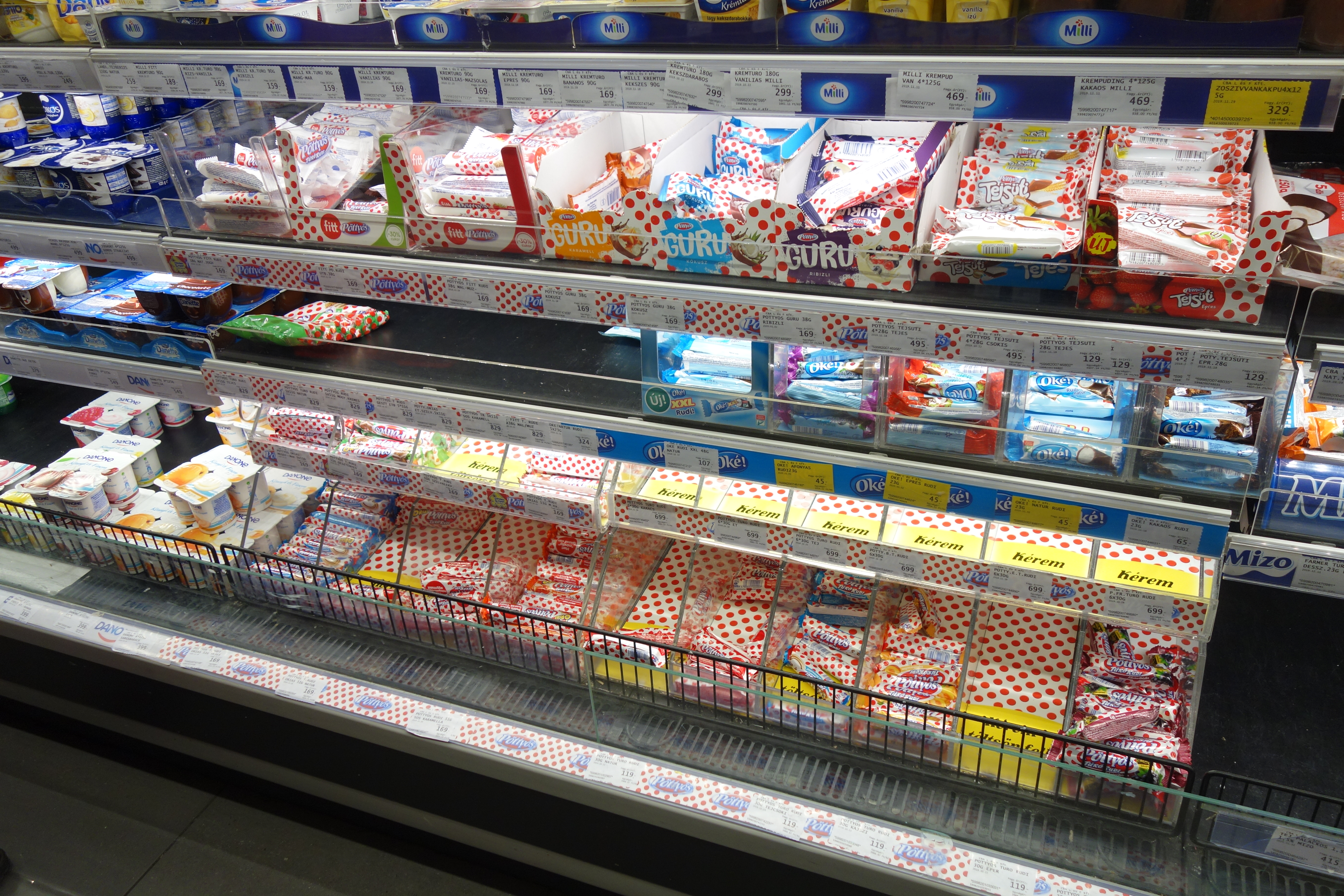 Different versions of the popular Hungarian curd snack Túró Rudi, displayed in an aisle at a grocery store in Budapest.